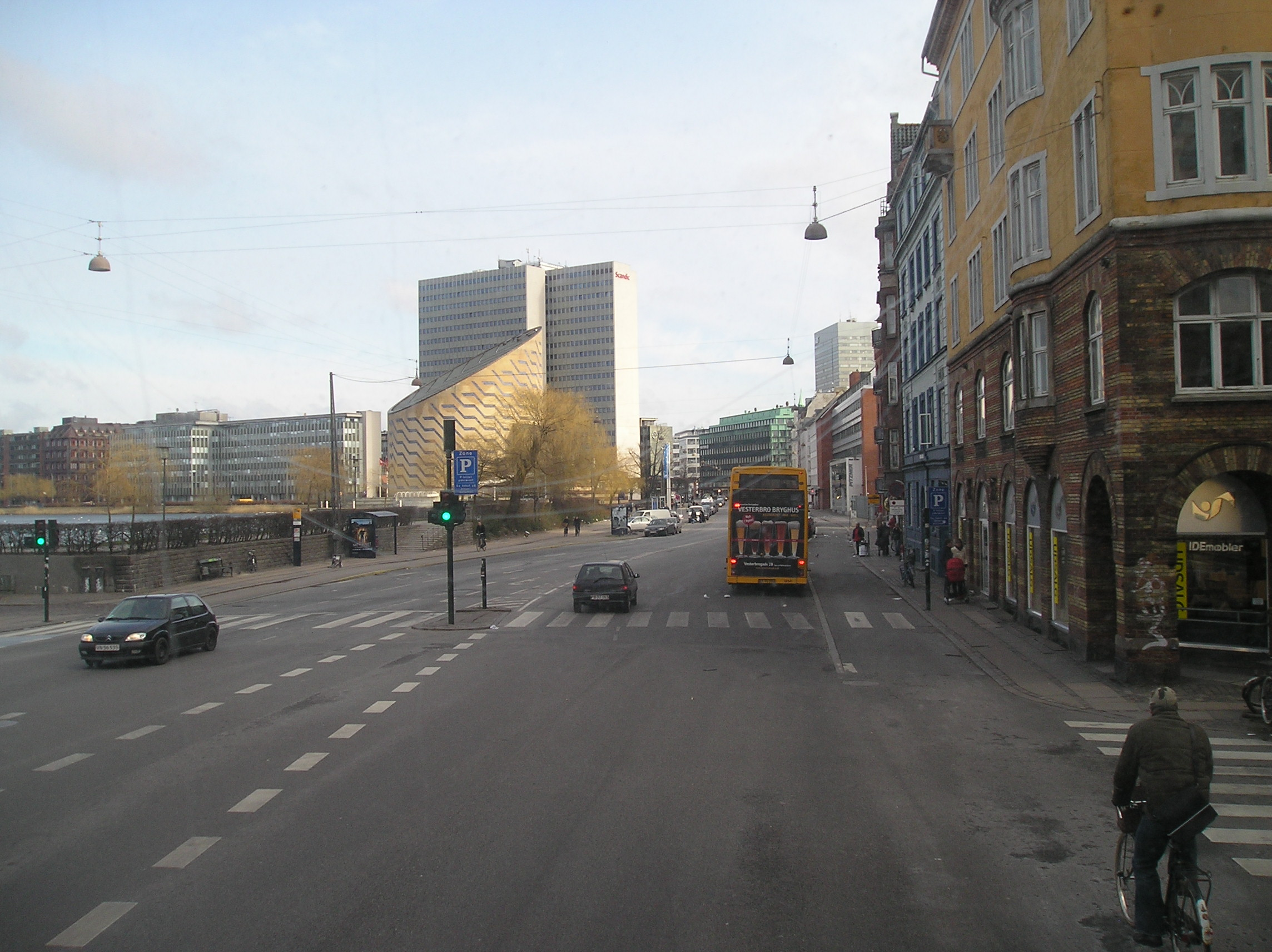 The Copenhagen Street Gammel Kongevej at the cross with Vodroffsvej. At the left the lake Sankt Jørgens Sø. The unusual building in the middle is Tycho Brahe Planetarium.